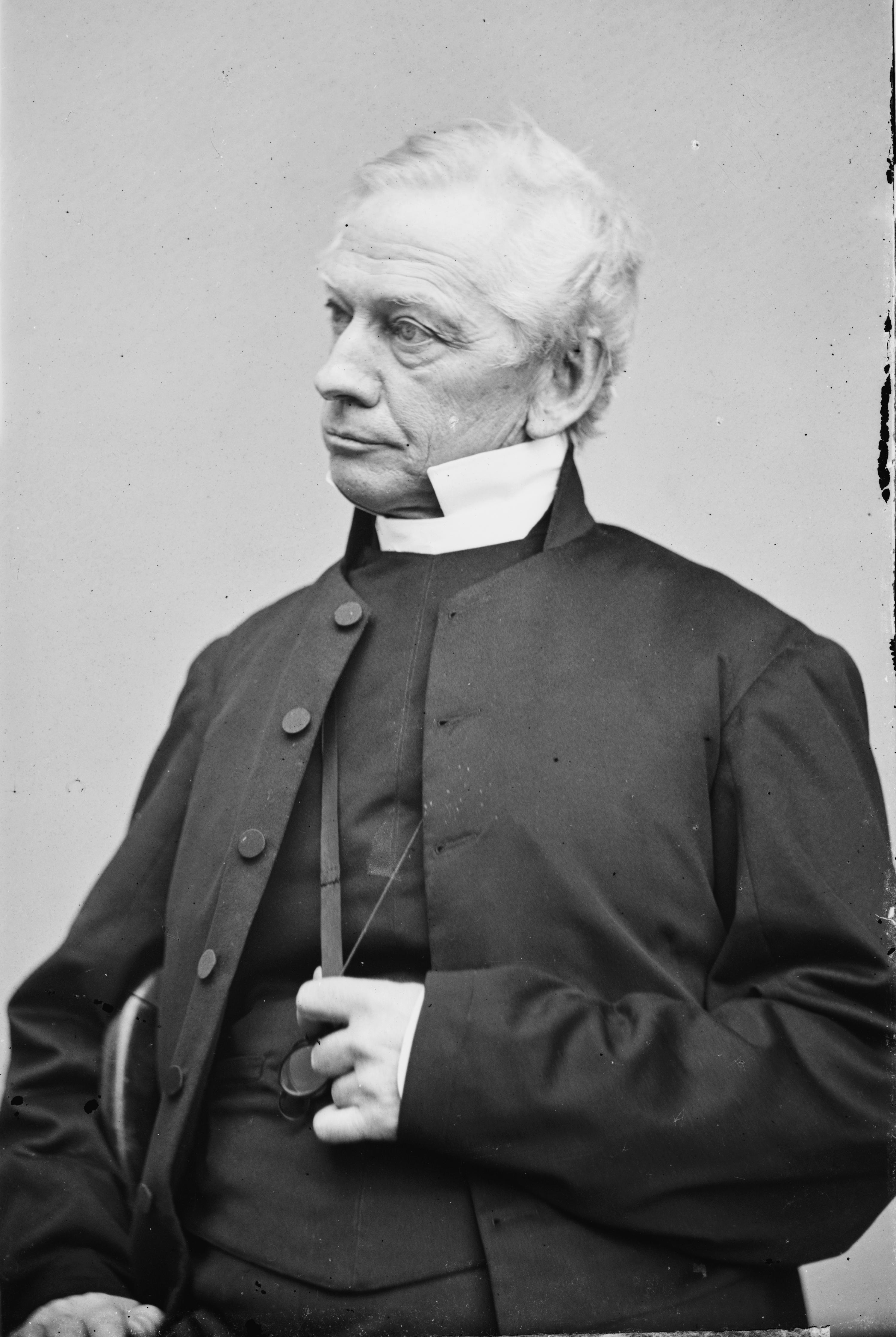 Horatio Potter. Library of Congress description: "Bishop Horatio Potter"